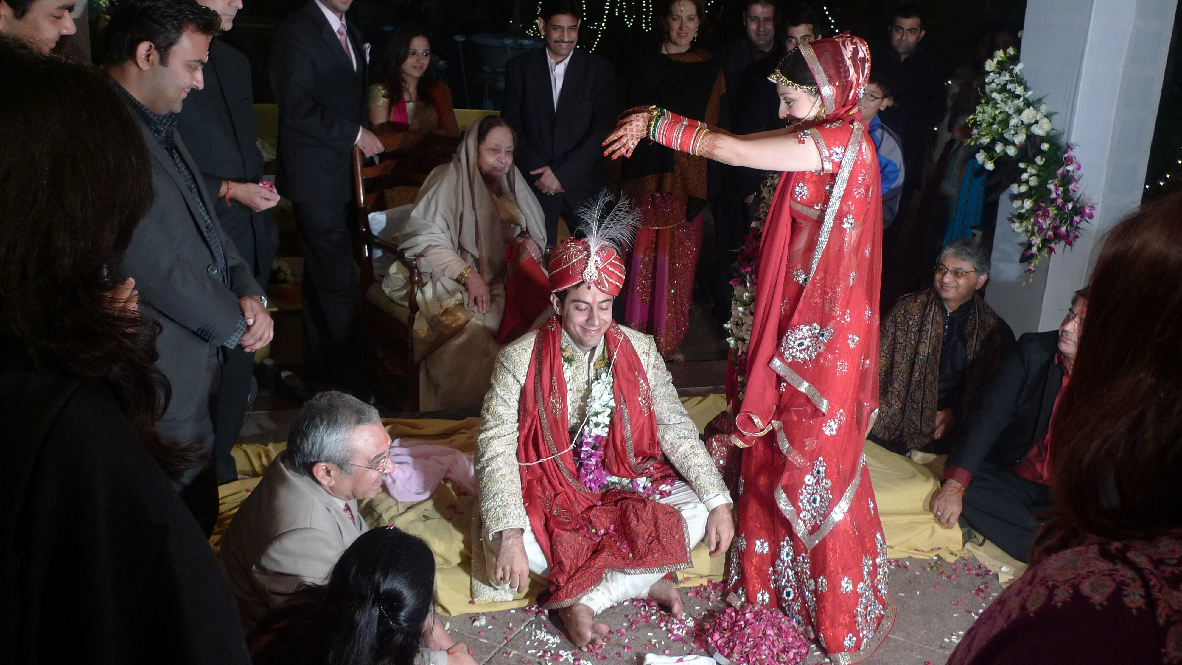 A ritual in progress Hindu wedding, India